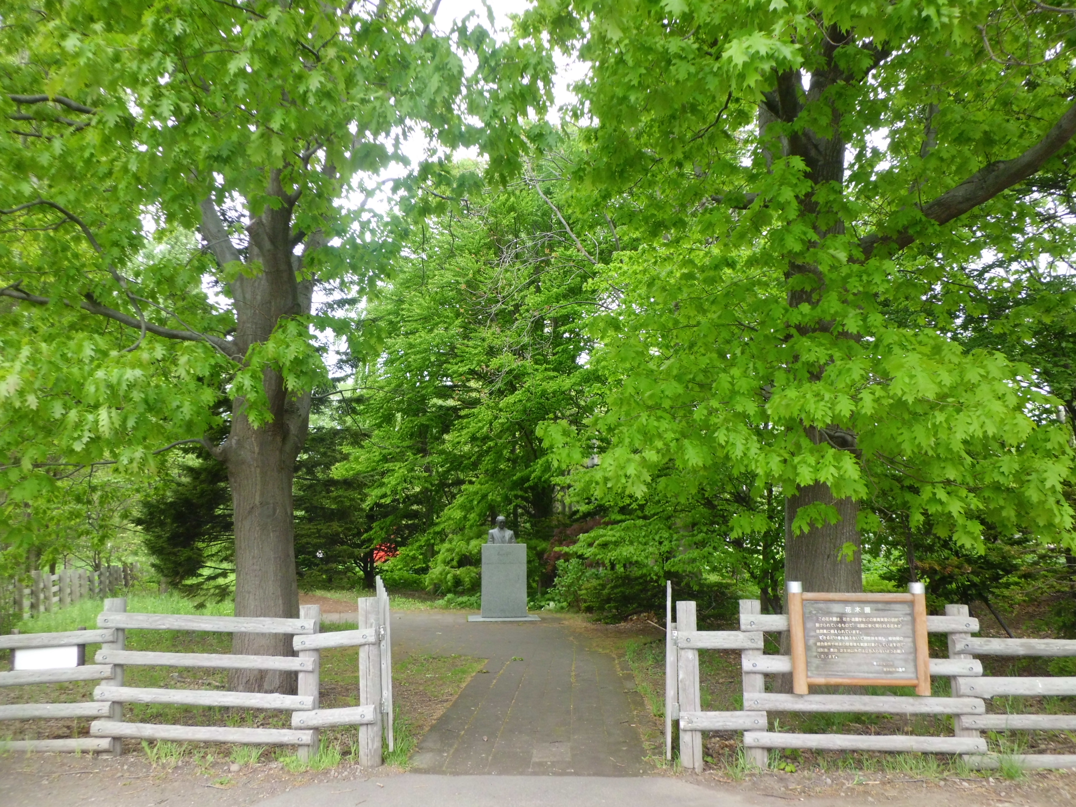 Flowers and Trees Garden at Hokkaido University